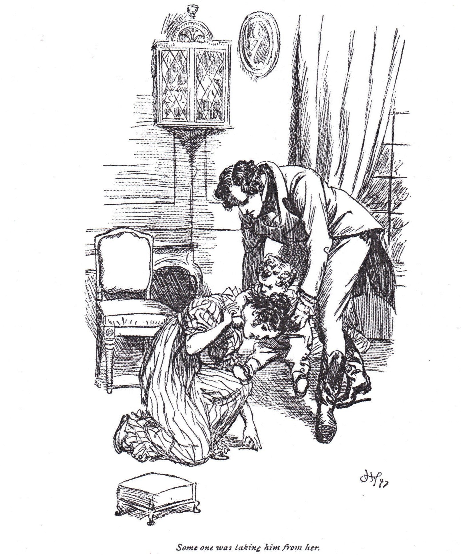 Engraving for Persuasion, ch. 9: Someone was taking him from her.